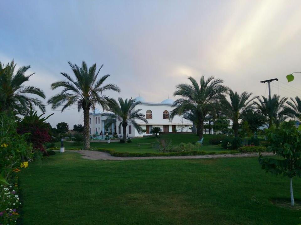 The Masood Jhandir Research Library (مسعود جھنڈیر ریسرچ لایبریری) is the largest private library of Pakistan[1] situated at a small village Sardar Pur Jhandir in the Mailsi Tehsil, Vehari District. It was established in 1899 by a great scholar and poet, Malik Ghulam Muhammad (1865–1936).